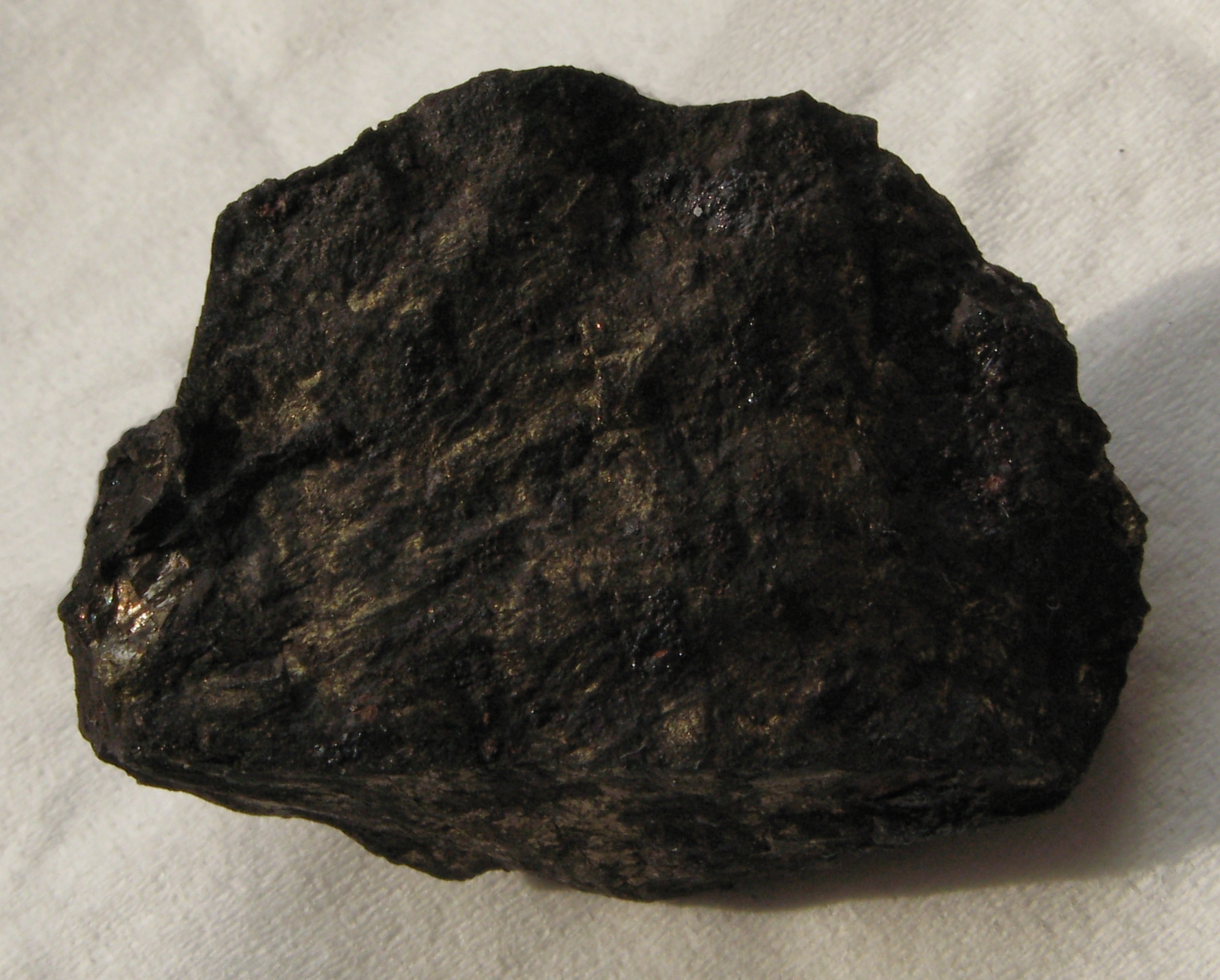 Putoranite and Talnakhite Locality: Talnakh, near Norilsk in Russia Exposed in the Mineralogical Museum of University Bonn, Germany